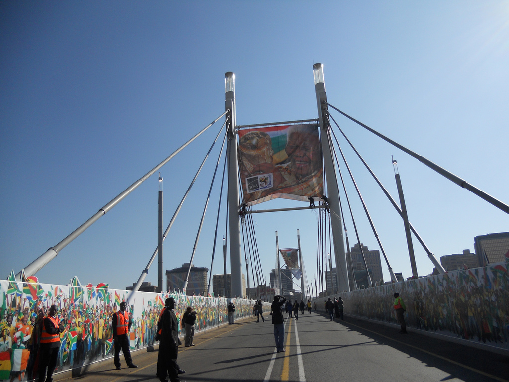 At a public event the new 2010 FIFA World Cup branding for the Nelson Mandela Bridge was dropped from the trusses of the massive suspension pylons, in tribute to the famous South African leader after whom the bridge was named. One of Johannesburg's most iconic features is the Nelson Mandela Bridge, a 284 metre-long structure that links the CDB to the northern regions of the city. The bridge carries 4,000 cubic feet of concrete and 1,000 tons of metal, making it the biggest cable-stayed bridge in Southern Africa. Read more